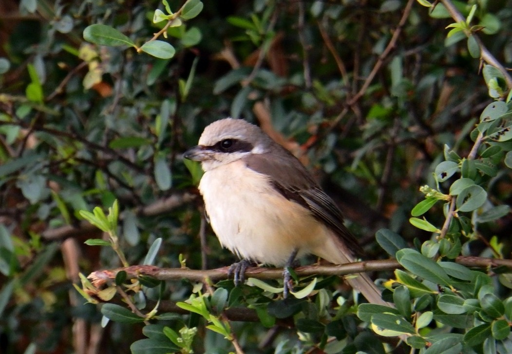 Lanius cristatus, male, adult